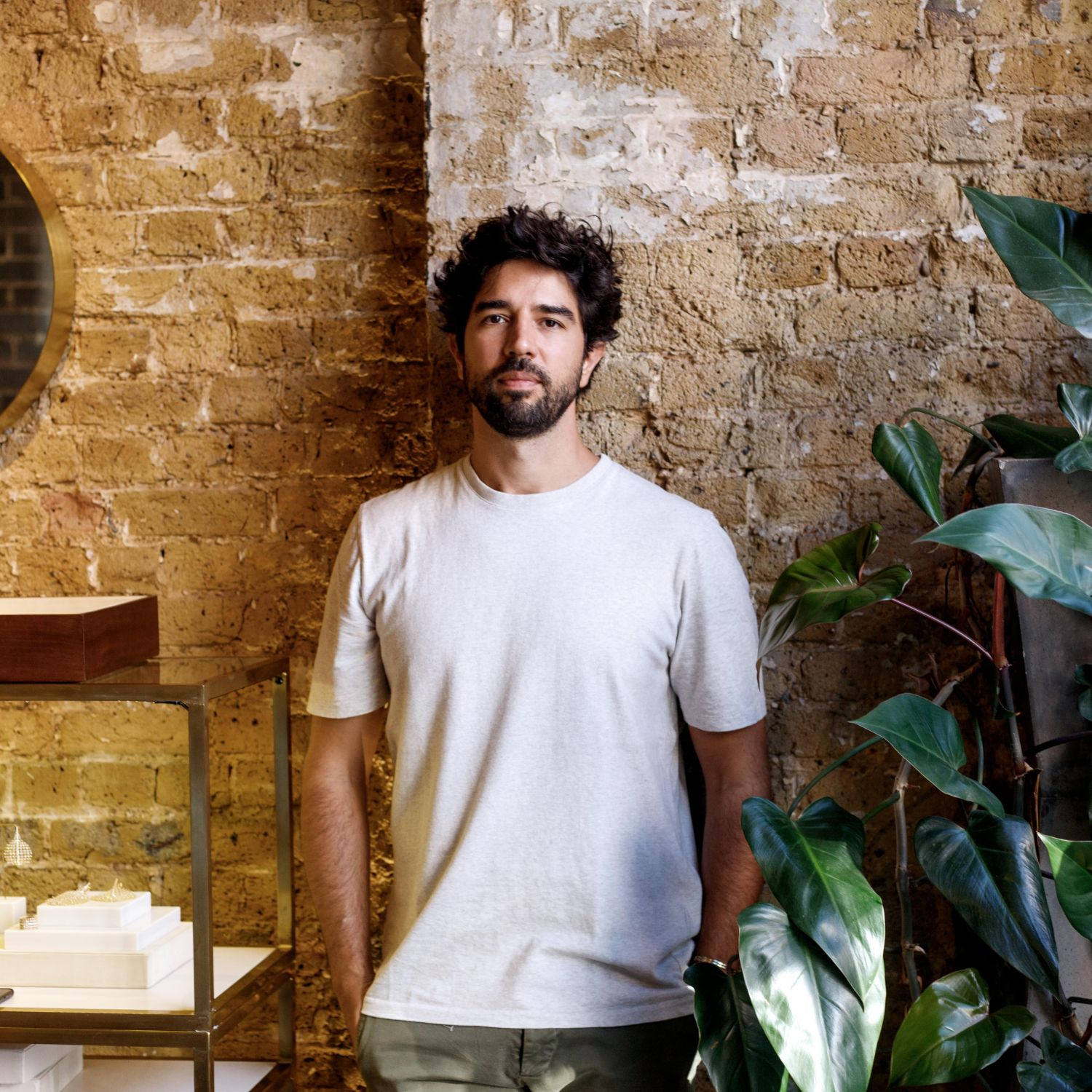 A portrait of designer Fernando Jorge in his London showroom